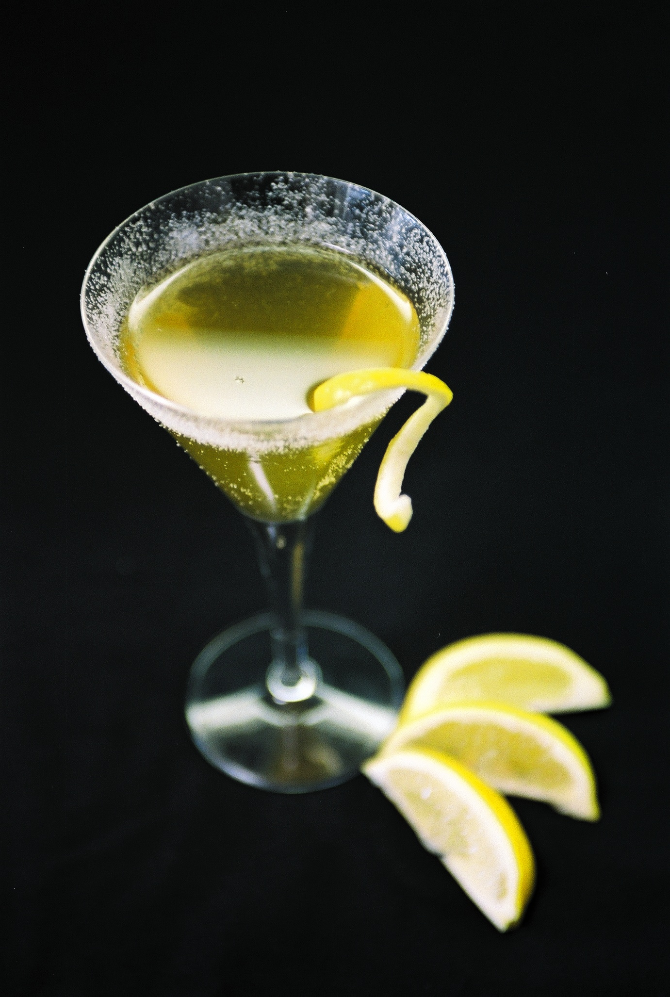 A cocktail glass with a yellow cocktail. Three lemon wedges at the glass's base.